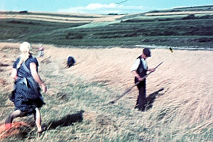 harvest near Libiąż, Poland